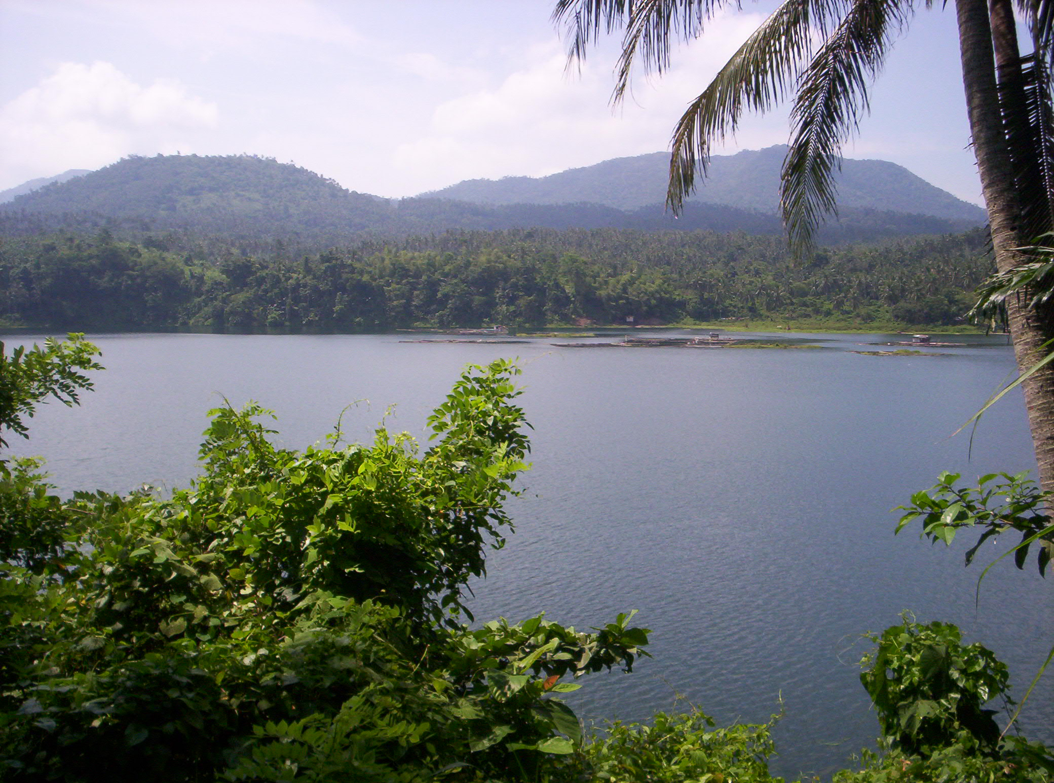 The view of Lake Yambo from the narrow strip of land that seperates it from Lake Pandin.